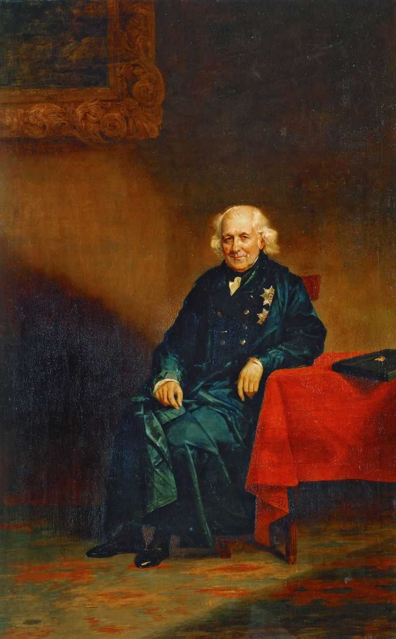 Count Nikolay Mordvinov (1754-1845).